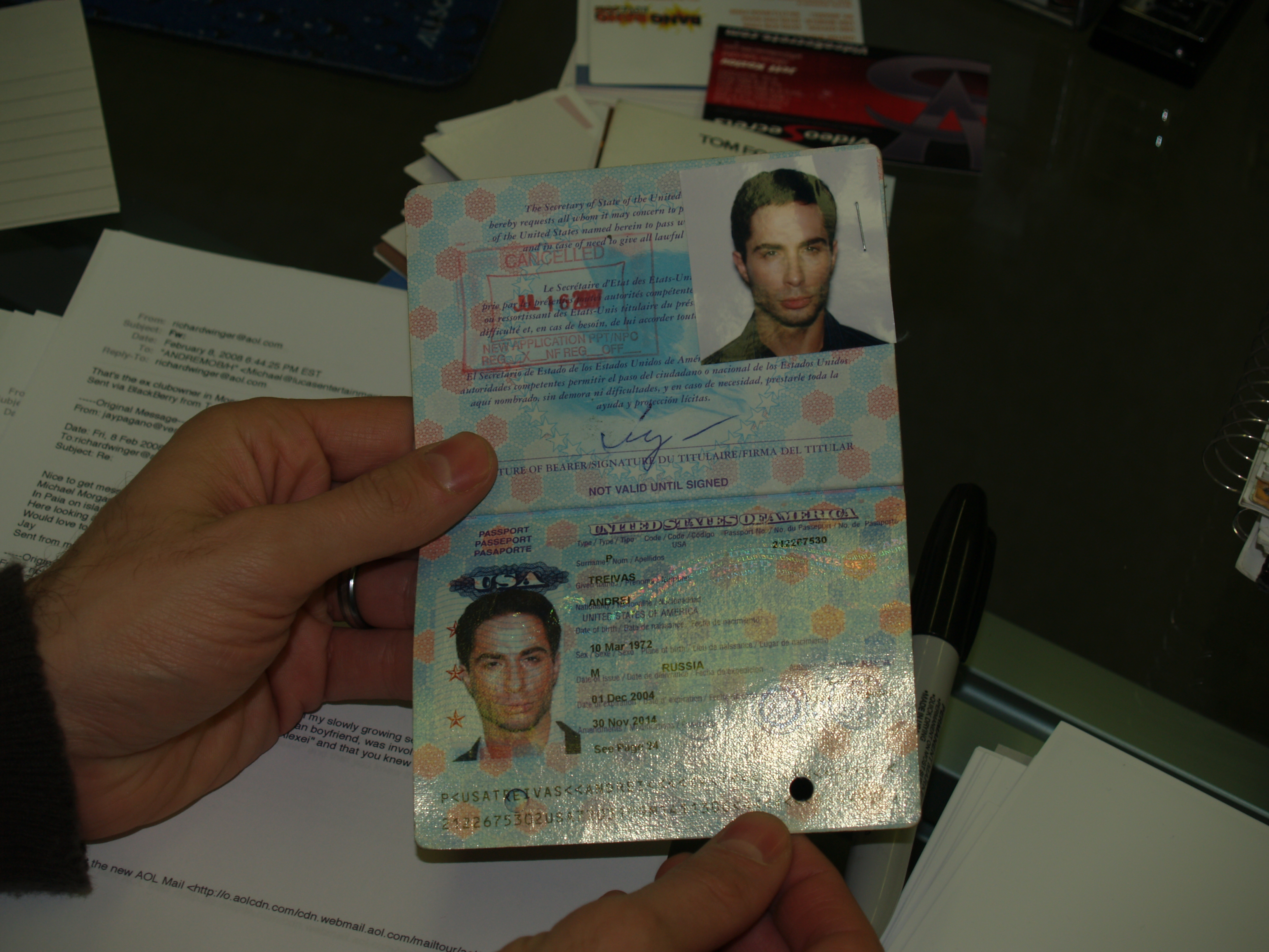 The U.S. Passport of Michael Lucas (porn star). It shows that his name is Andrei Treivas.